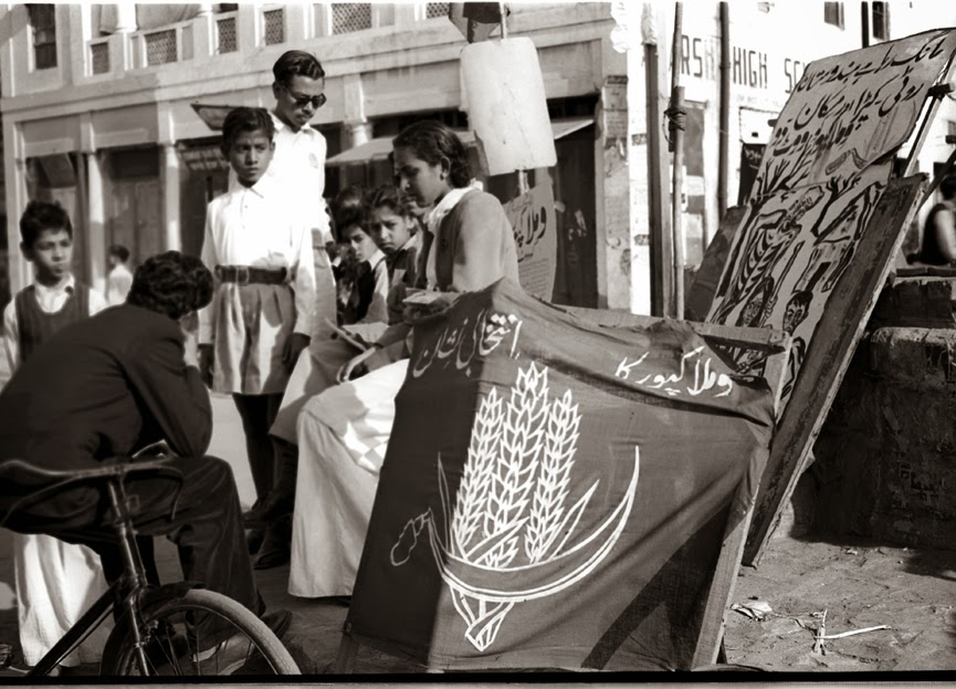 Polling and General Election Scenes, DelhiA Communist Camp of Karol Bagh, Delhi.